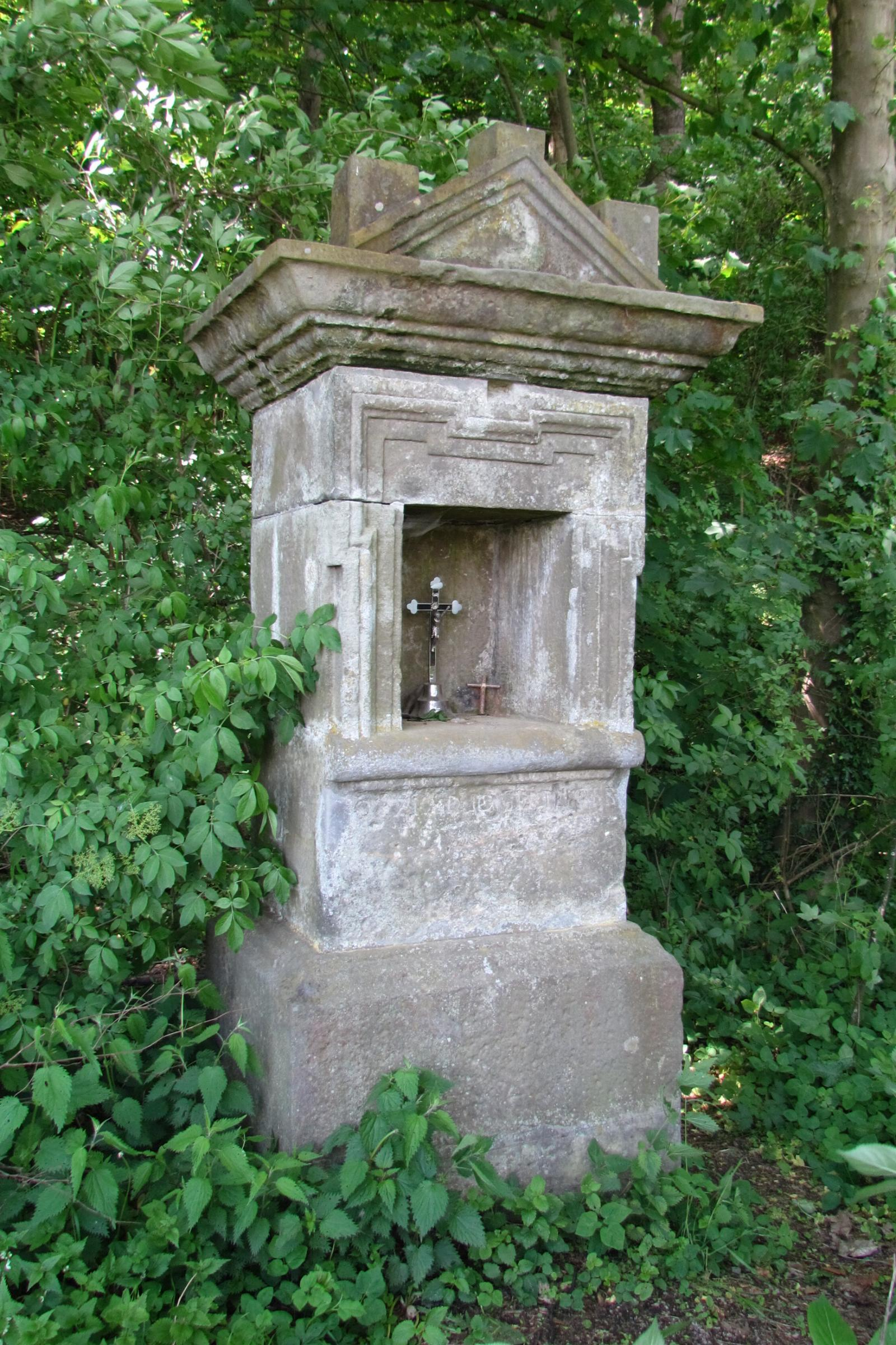 This is a photograph of an architectural monument.It is on the list of cultural monuments of Korschenbroich